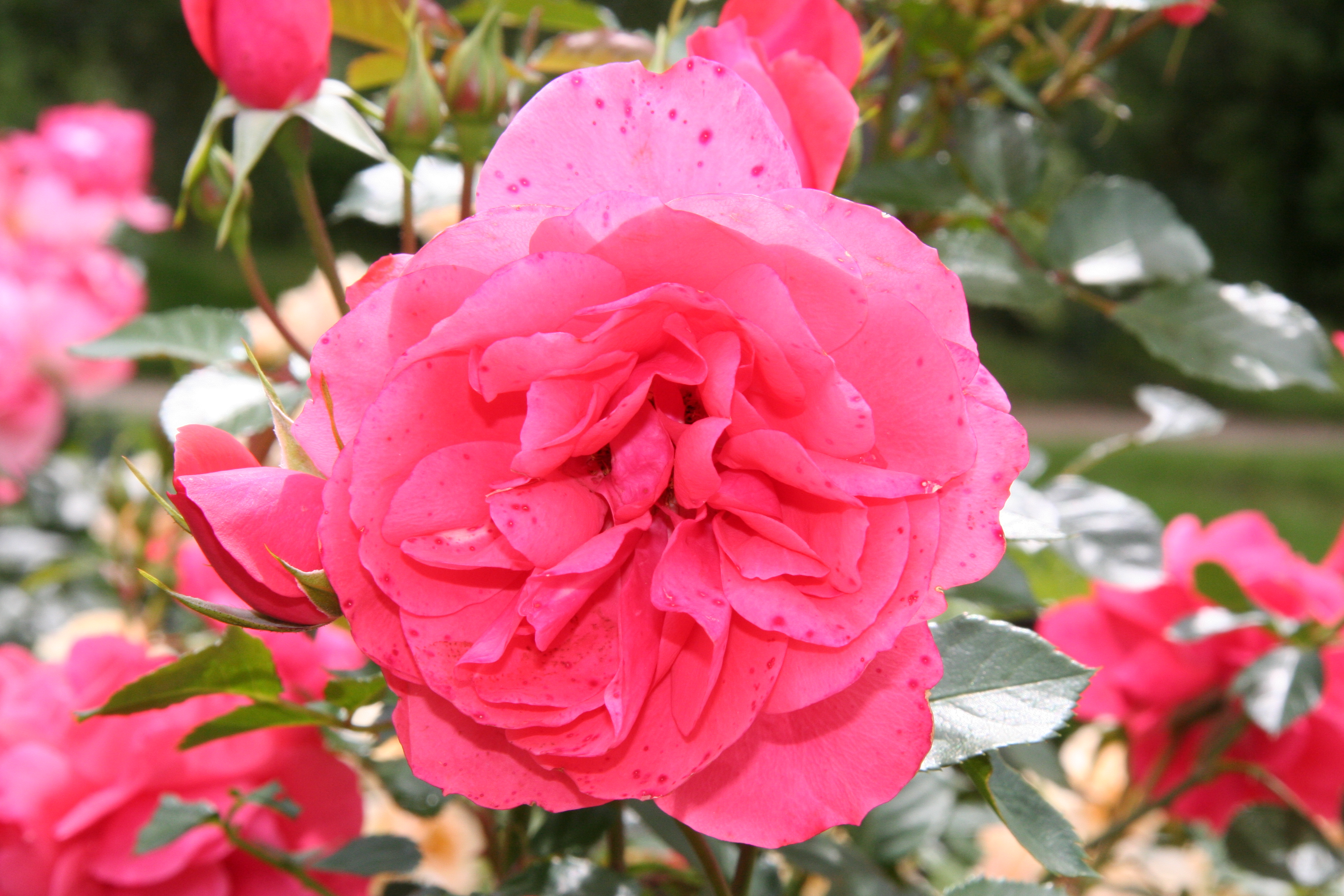 Riberhus rose - Bagatelle Rose Garden (Paris, France).